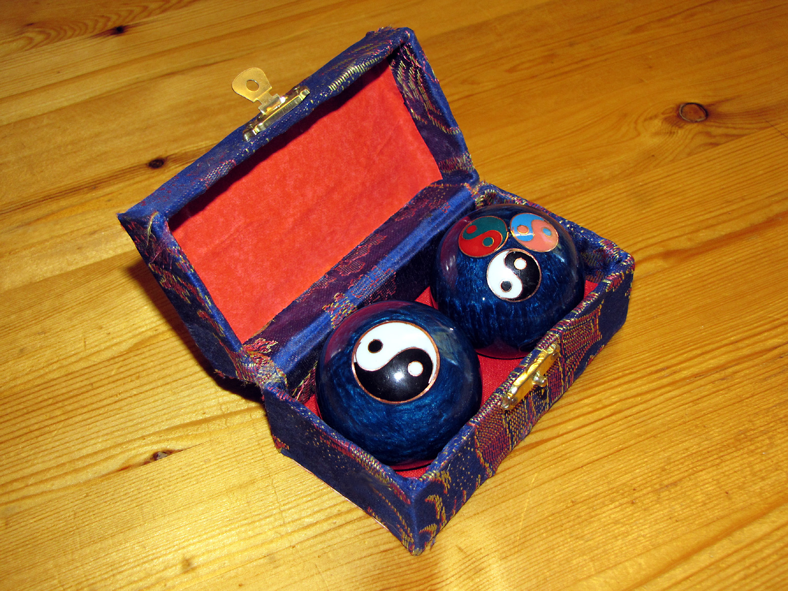 Baoding balls.